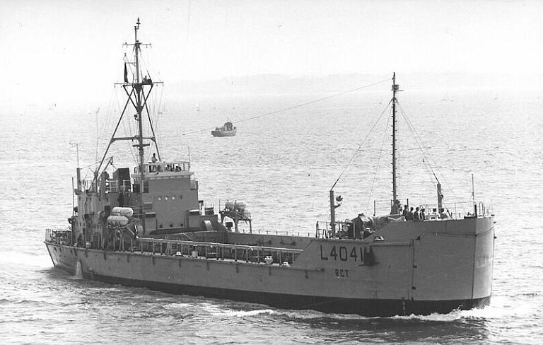 An old photo of HMAV Abbeville